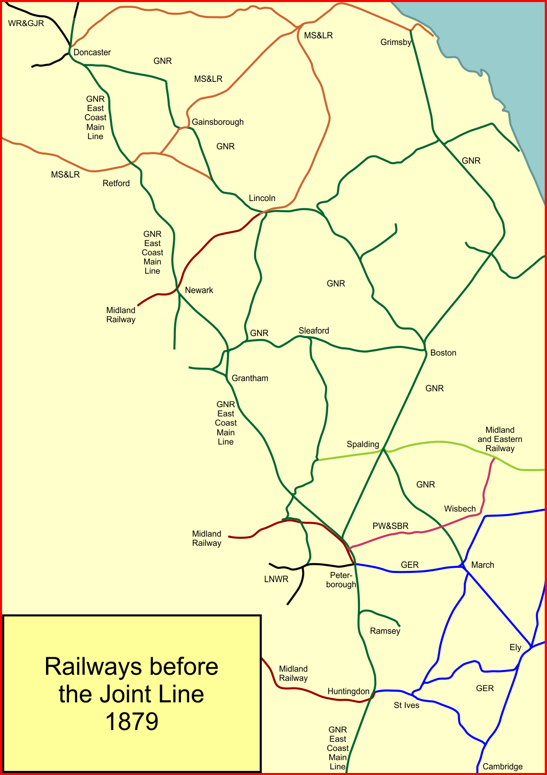 System map of the GN and GE Joint Railway Line, England, in 1879